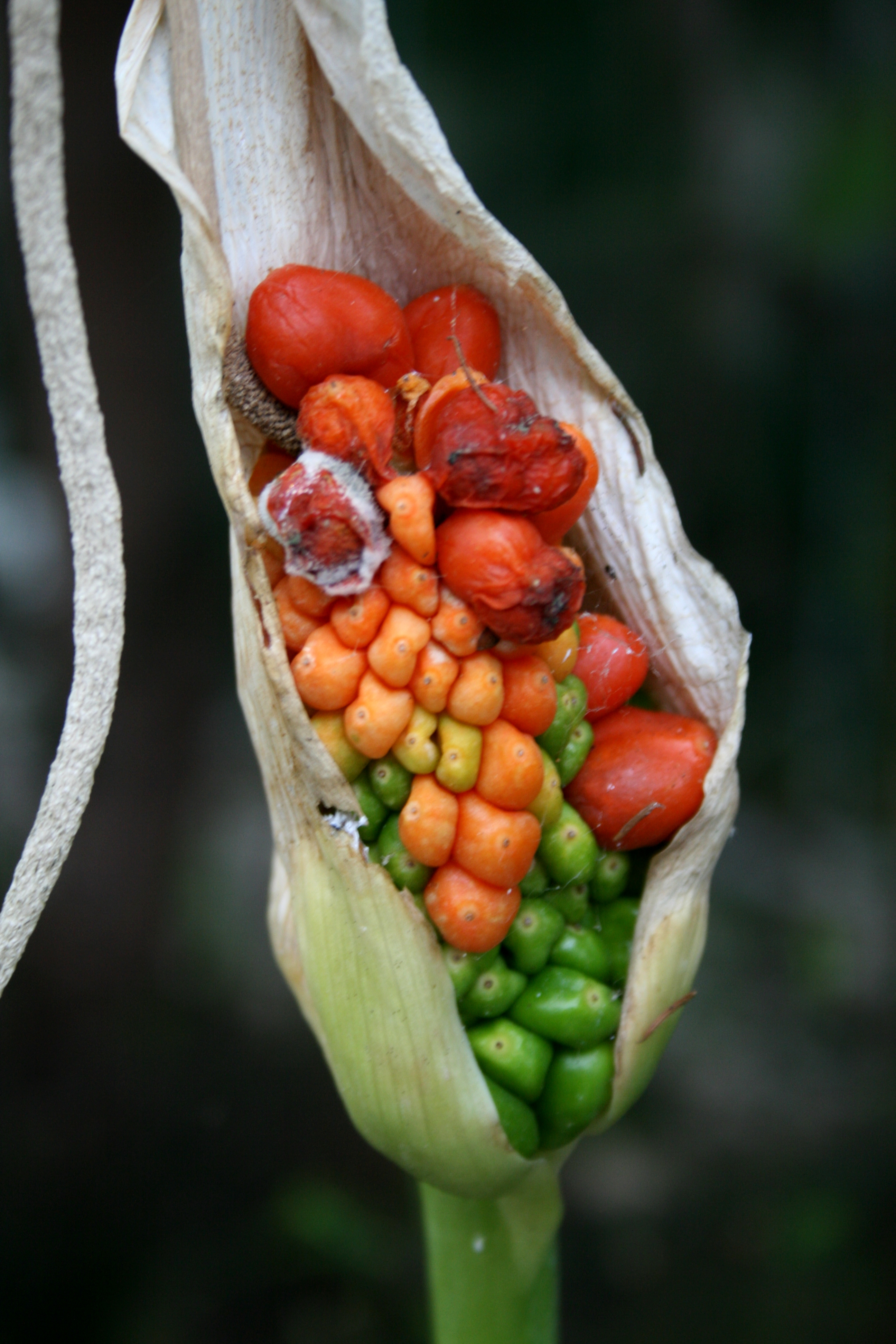 Dracunculus canariensis